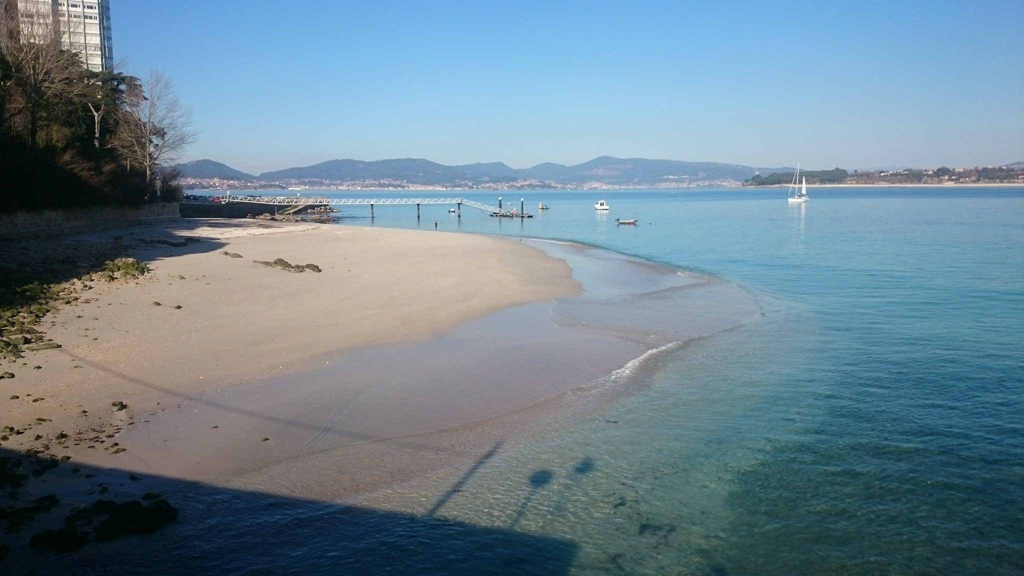 Toralla Beach